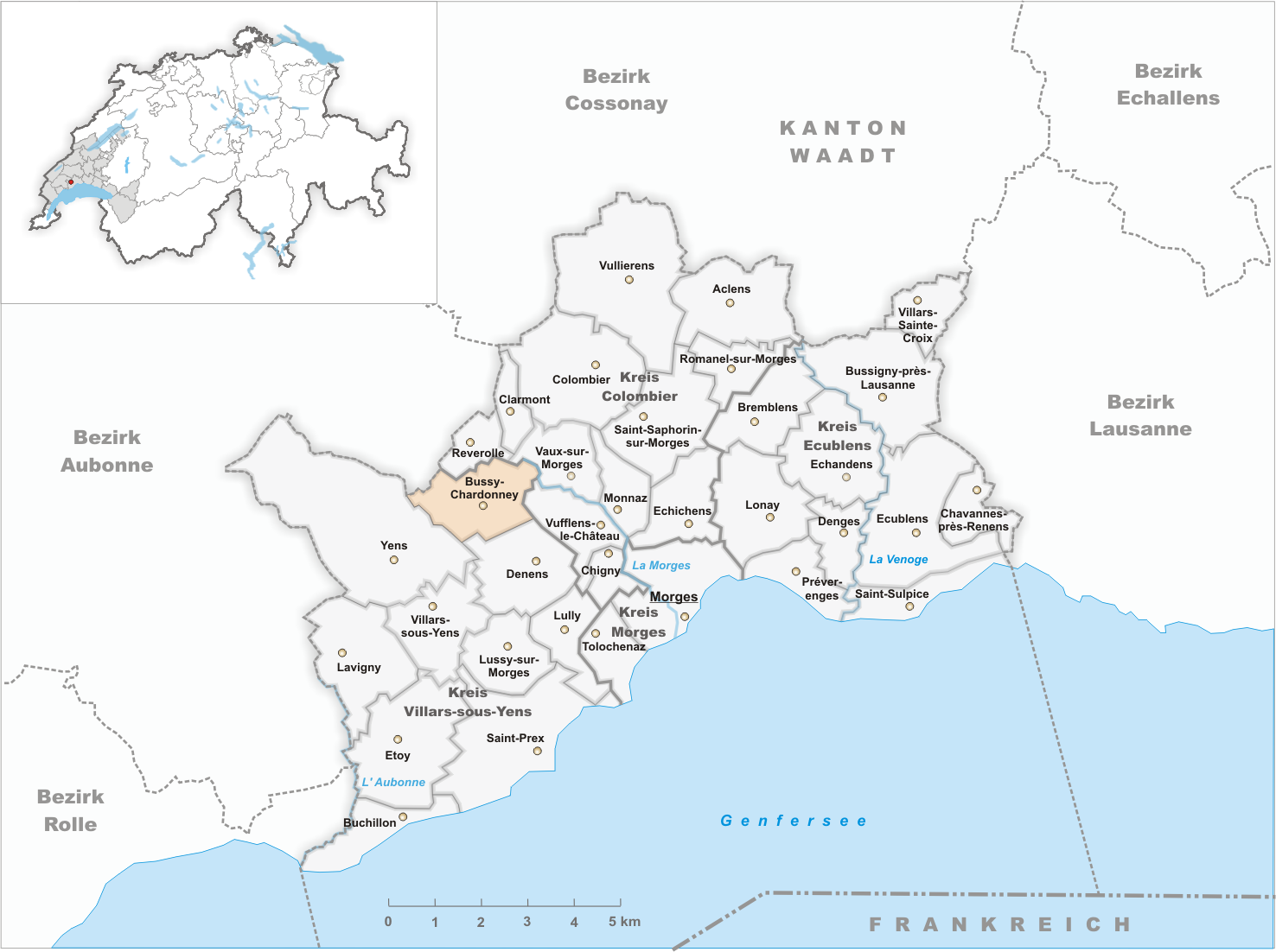 Municipality Bussy-Chardonney